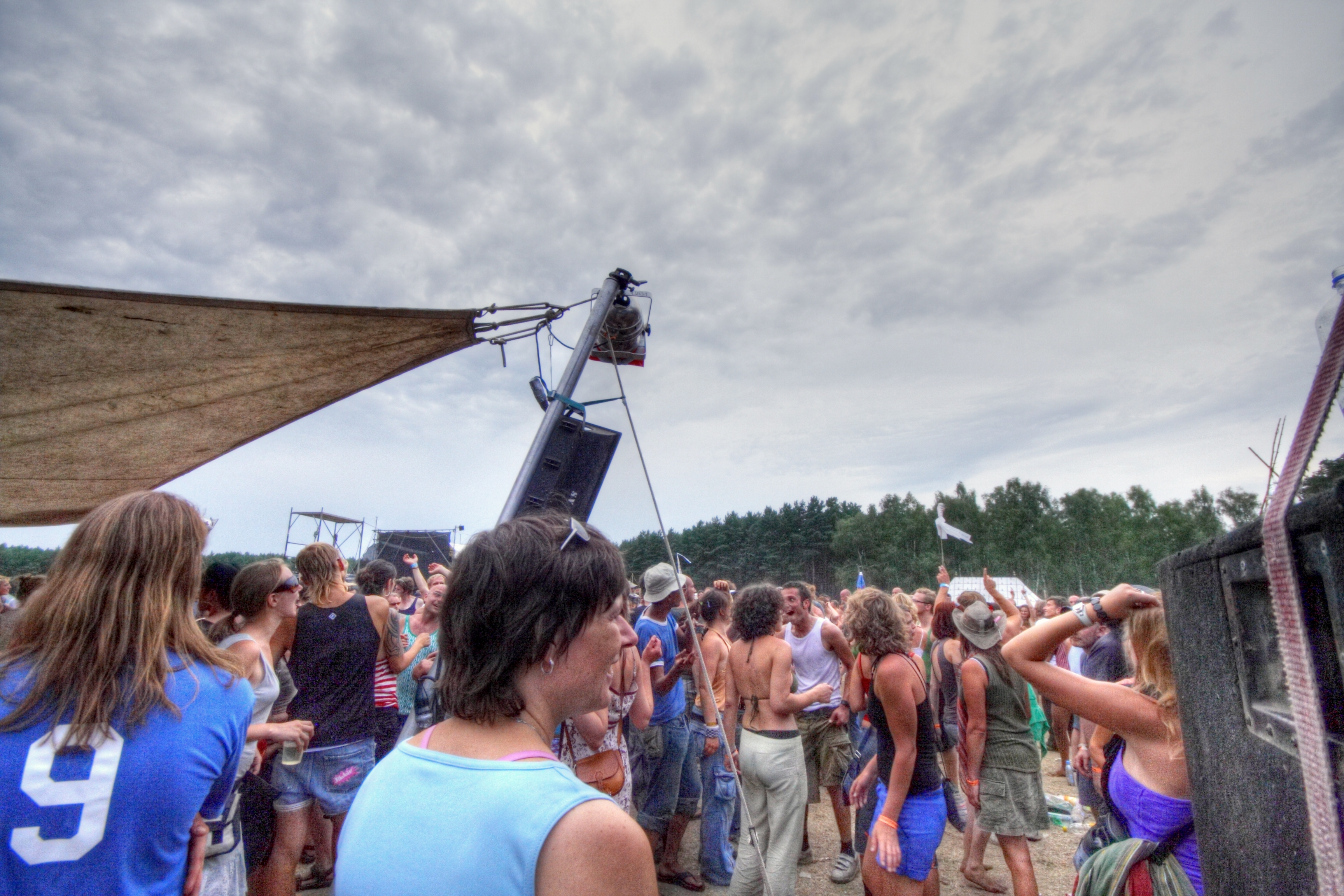 Nation of Gondwana